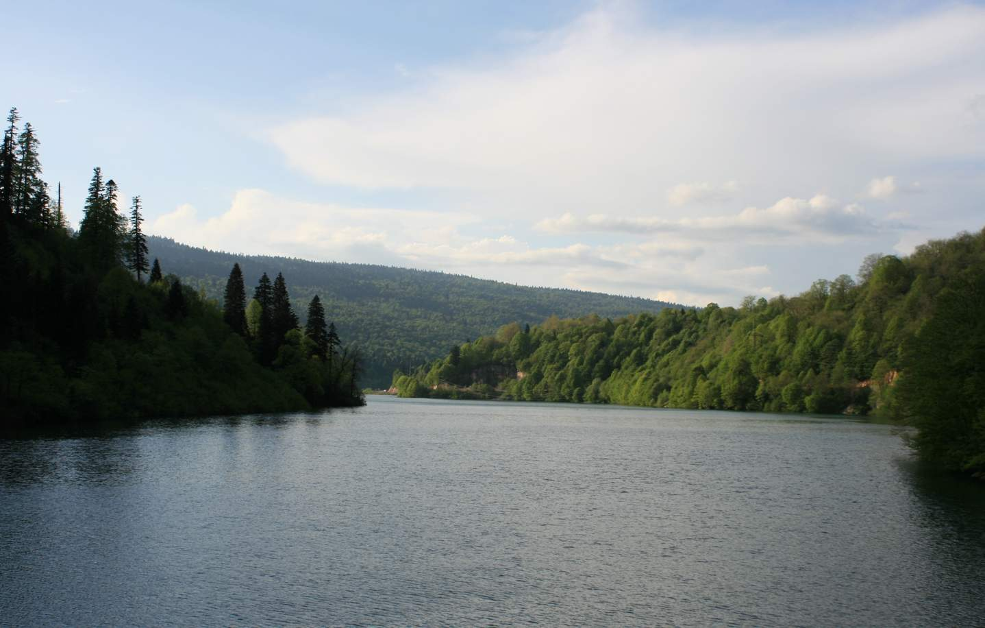 Shaori Lake, Georgia